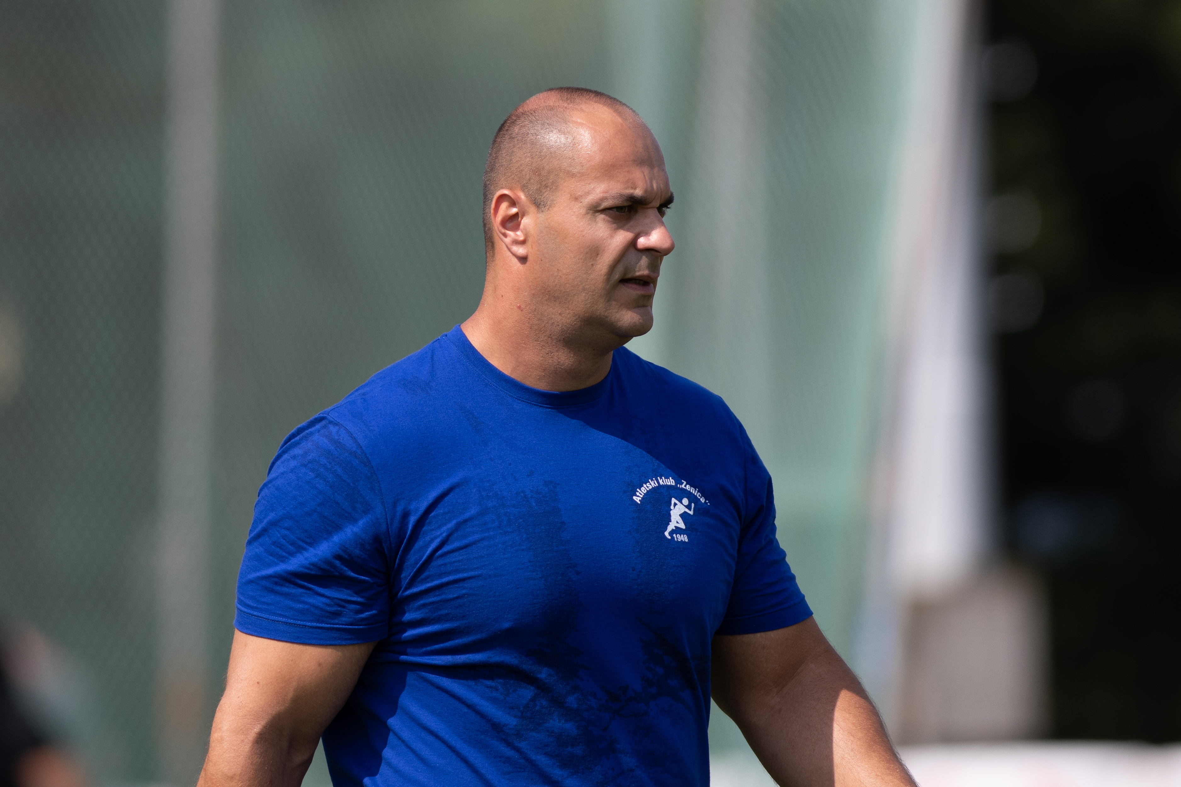 Leichtathletik Gala Linz 2018; men´s discus throw; Varga Roland, AK Dinamo Zagreb (CRO)